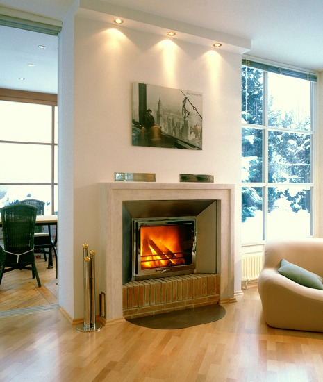 Biofire masonry fireplace with large fire window for immediate heat provision